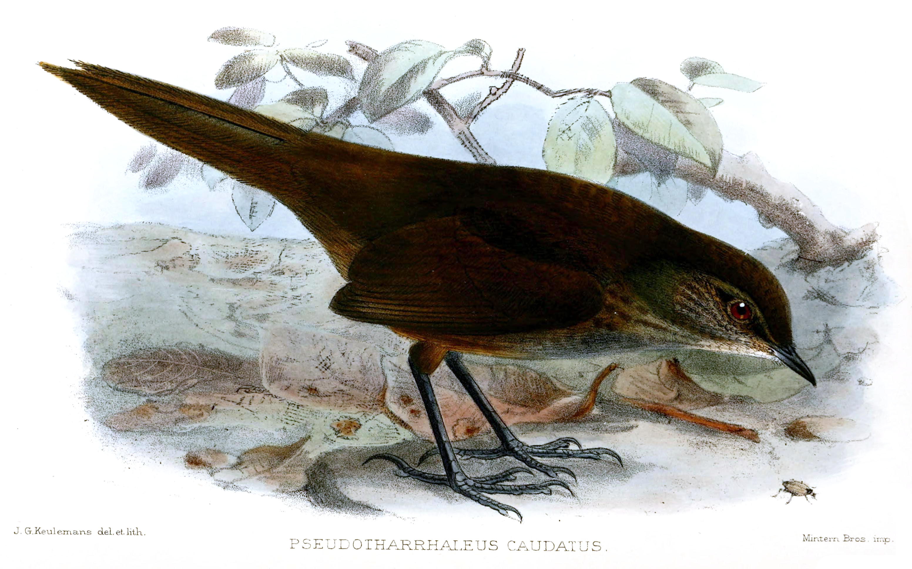 Pseudotharrhaleus caudatus = Locustella caudata from The Ibis.